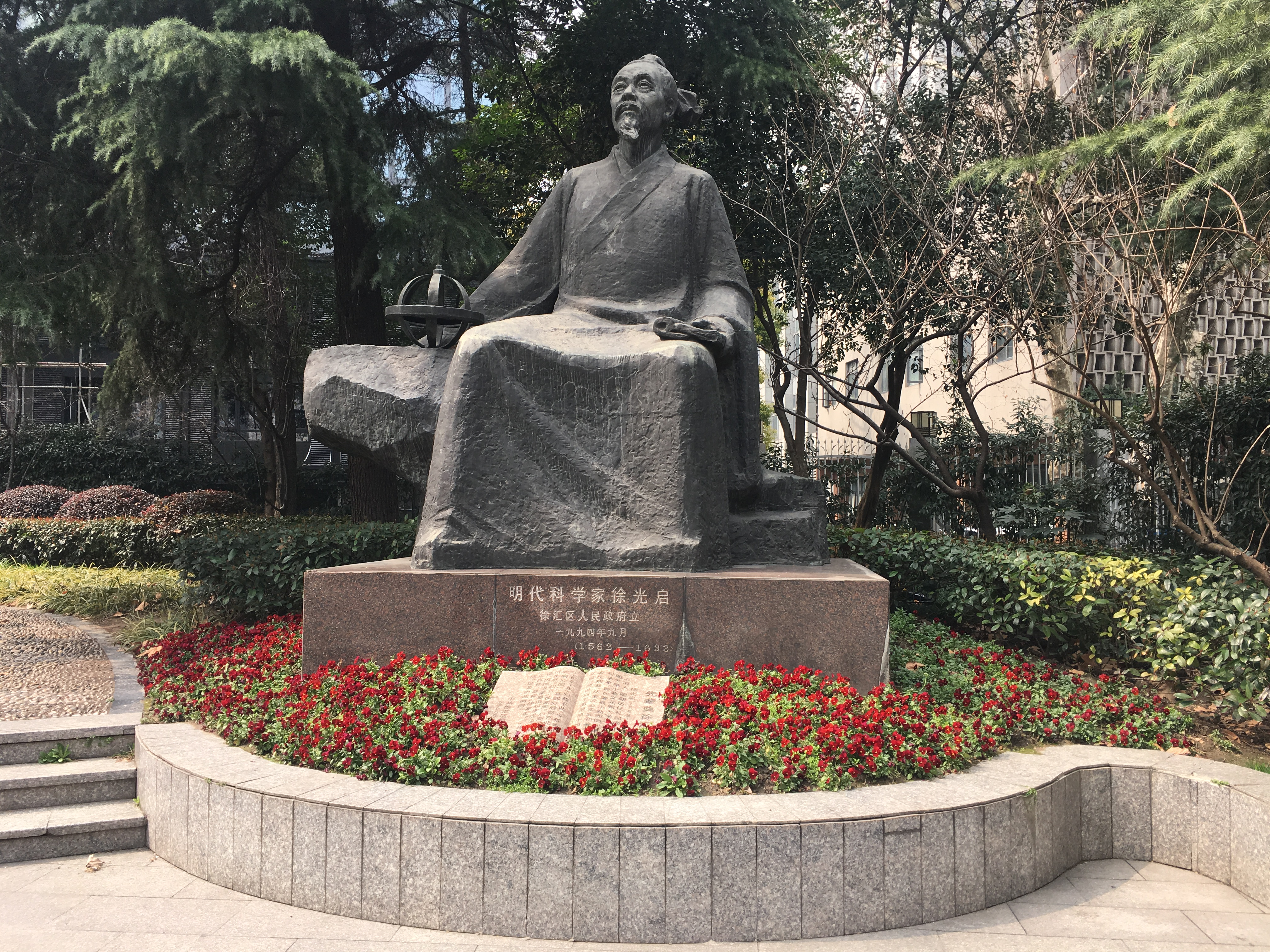 Statue of Ming dynasty scientist and China's most notable Catholic convert Xu Guangqi (1562-1633) at exit 1 of Xujiahui Metro station, Xuhui district, Shanghai, China, 1 March 2018. Address North Caoxi Road 286.